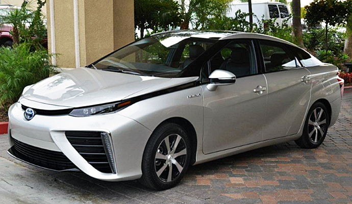 Lateral view of the 2015 Toyota Mirai fuel cell vehicle